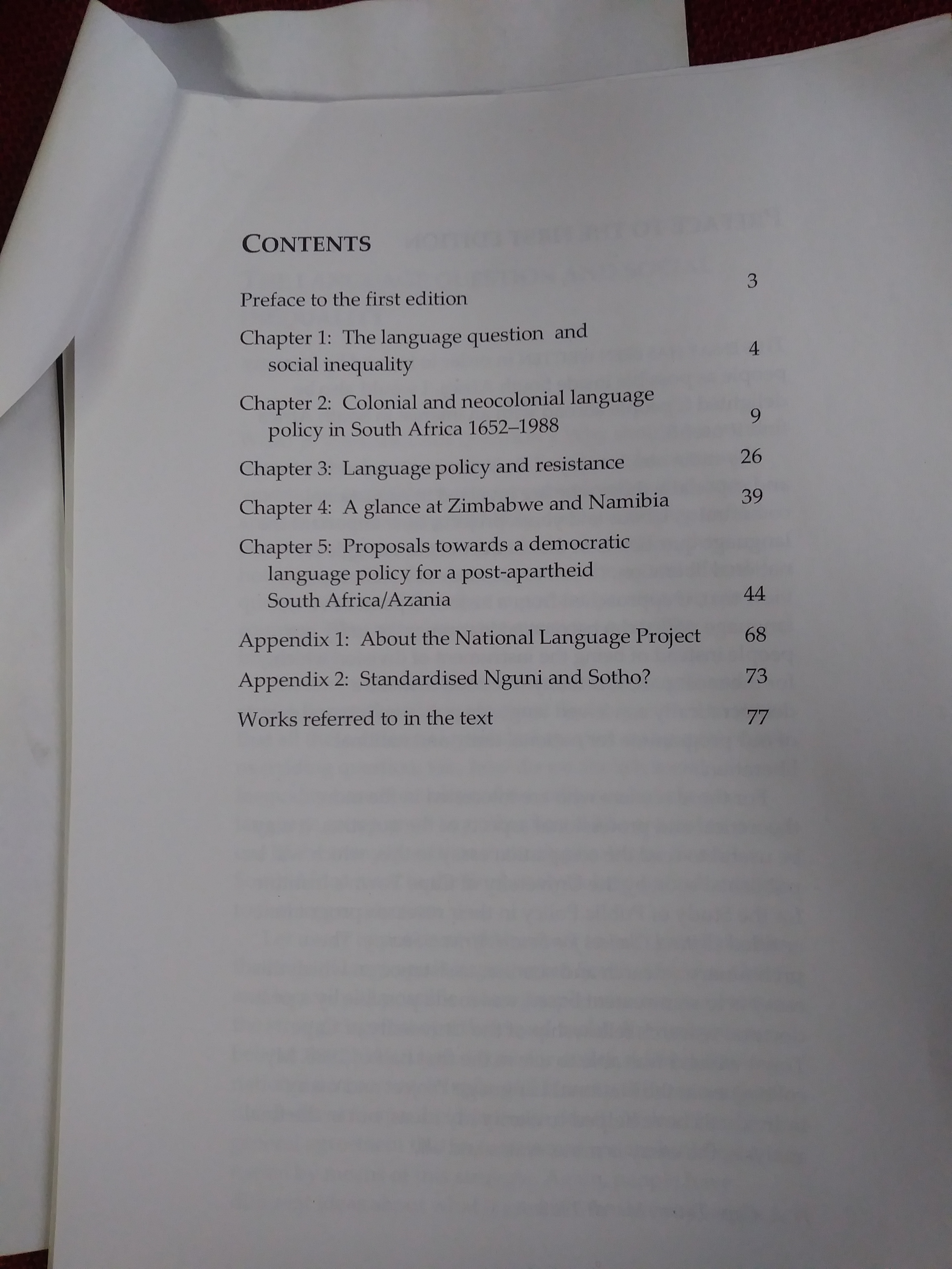 Index 'Language Policy and National Unity in South Africa/Azania', Neville Alexander, 1989